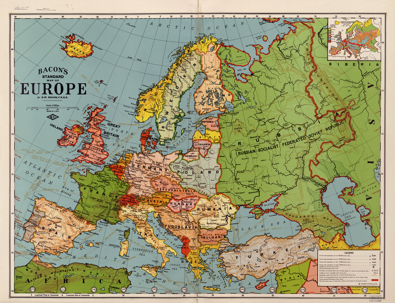 This map of Europe by the prominent British publisher G.W. Bacon & Co., Ltd. shows Europe in the immediate aftermath of World War I. Among the political and territorial changes brought about by the war were the dissolution of the Austro-Hungarian and Ottoman empires, the overthrow of the tsarist government in Russia, the establishment or re-establishment of the independent states of Estonia, Latvia, Lithuania, Poland, Czechoslovakia, and Yugoslavia, the transfer of Alsace-Lorraine from Germany to France, and the expansion of Italian territory to include the region around Trieste. The inset map at the upper right shows population densities, ranging from the very sparsely populated northern Scandinavia to the thickly settled regions of western Germany, the Low Countries, and southern England. The map gives a total population for Europe of 475 million people. Also shown are steamship routes and time zones.